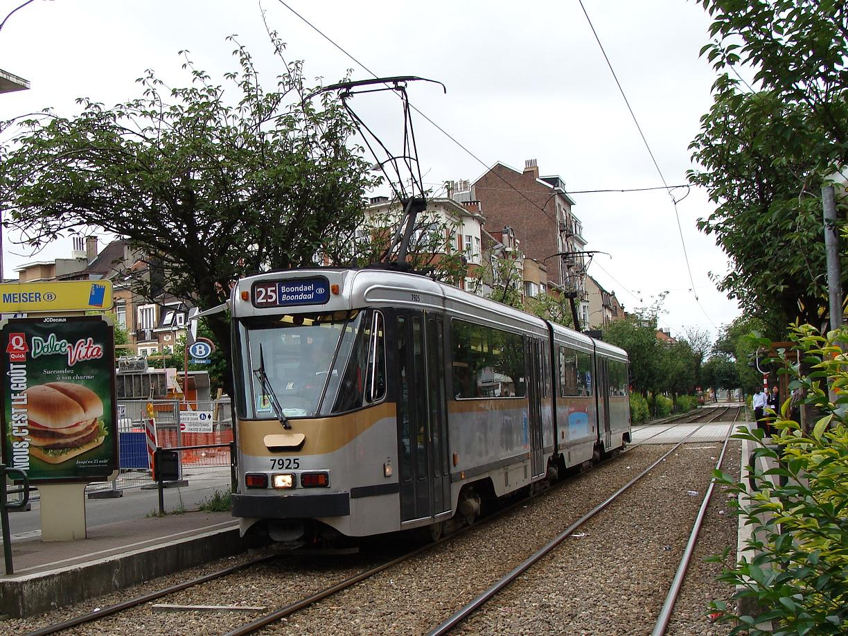 Brussels tram route 25 at Meiser Station.